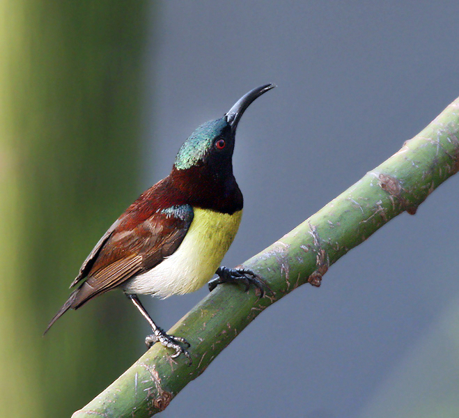 Purple-rumped Sunbird (Leptocoma zeylonica) in Kolkata, West Bengal, India.